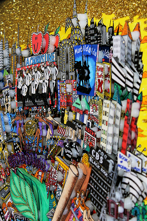 Side view of Charles Fazzino's 3-D artwork featuring New York City, illustrating the 3D effects of the artwork.